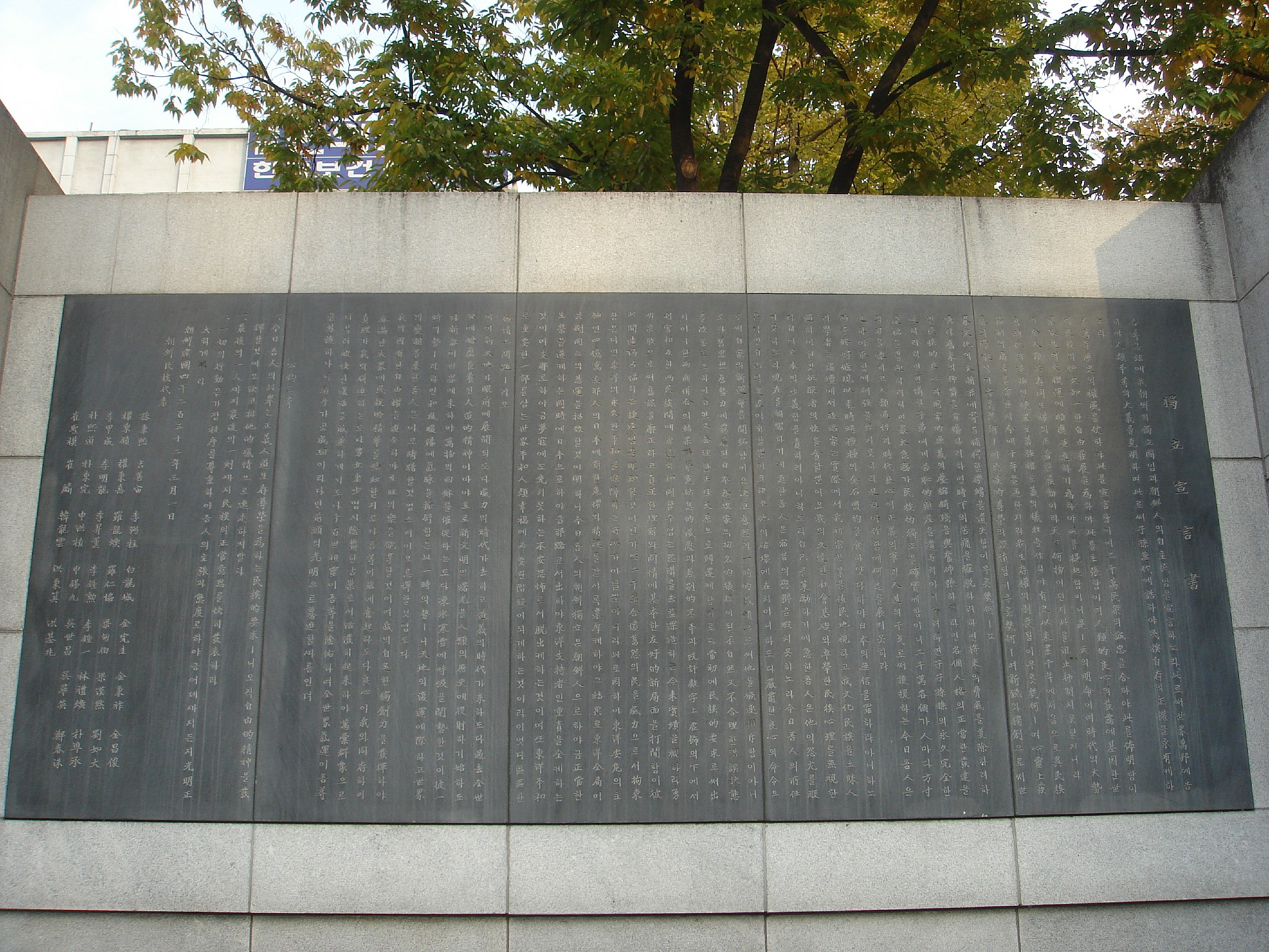 The detail of the monument of Sam-il movement at Tapgol park, Seoul. Photo taken by User:pugnari at 2006.11.19.